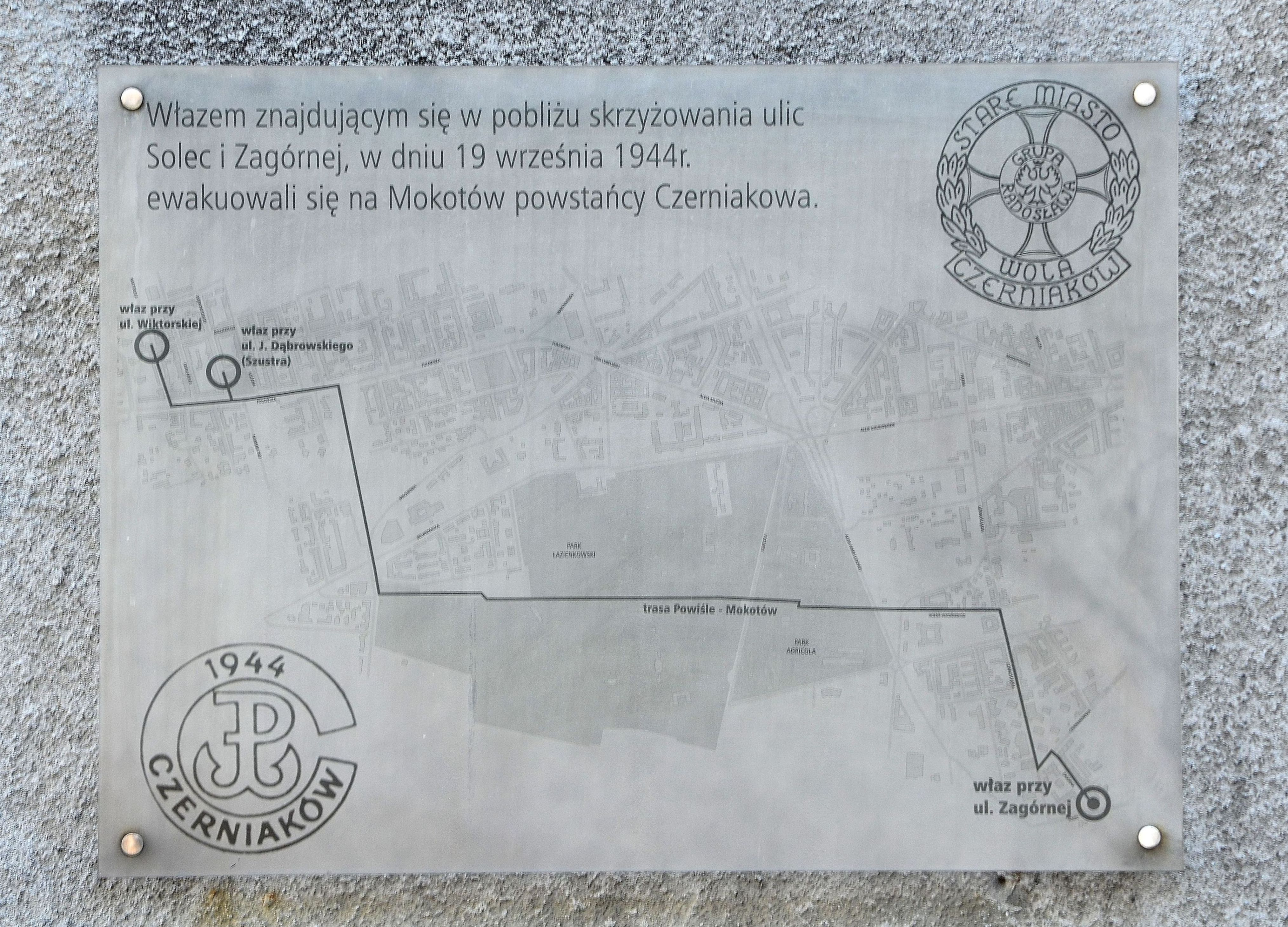 MSI plaque commemorating the evacuation of Polish fighters from Czerniaków to Mokotów on 19 September 1944 at 2/4 Zagórna Street